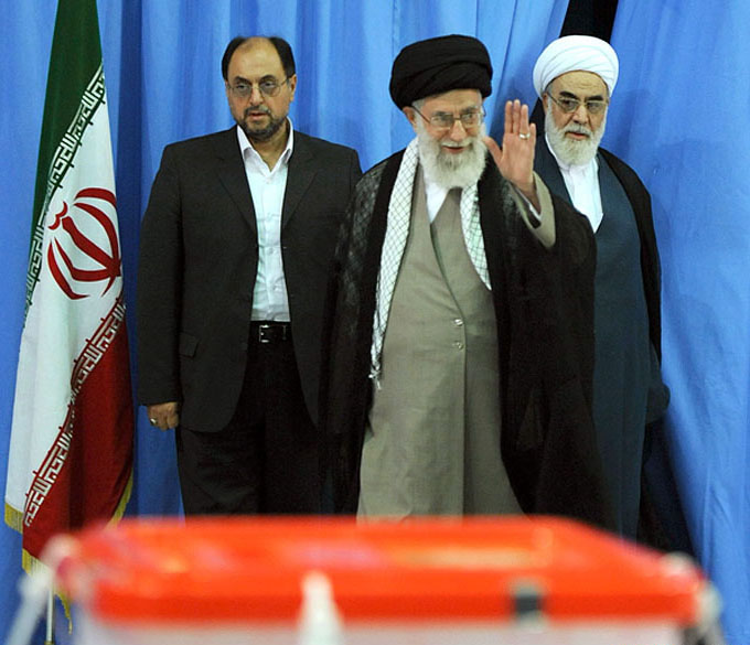 Ali Khamenei ready for voting in the 2013 Presidential election of Iran.